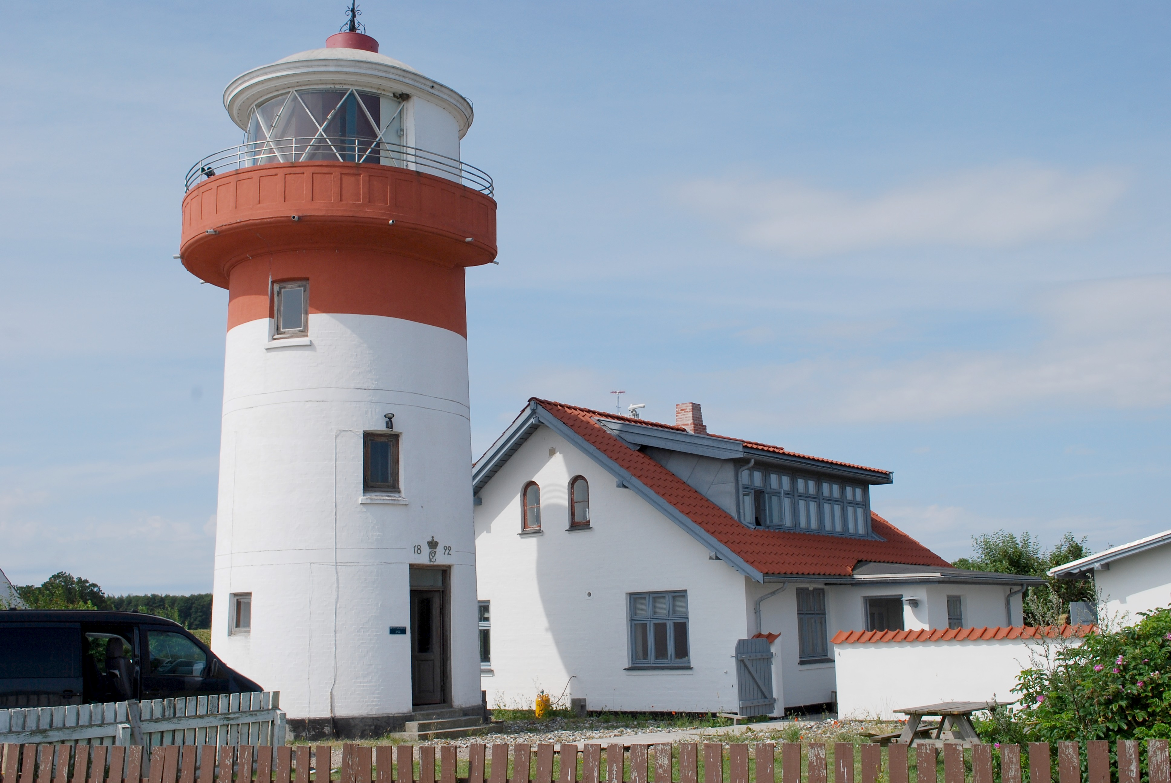 Lighthouse Hou - Langeland - Denmark